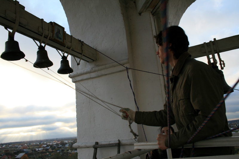 zvonar